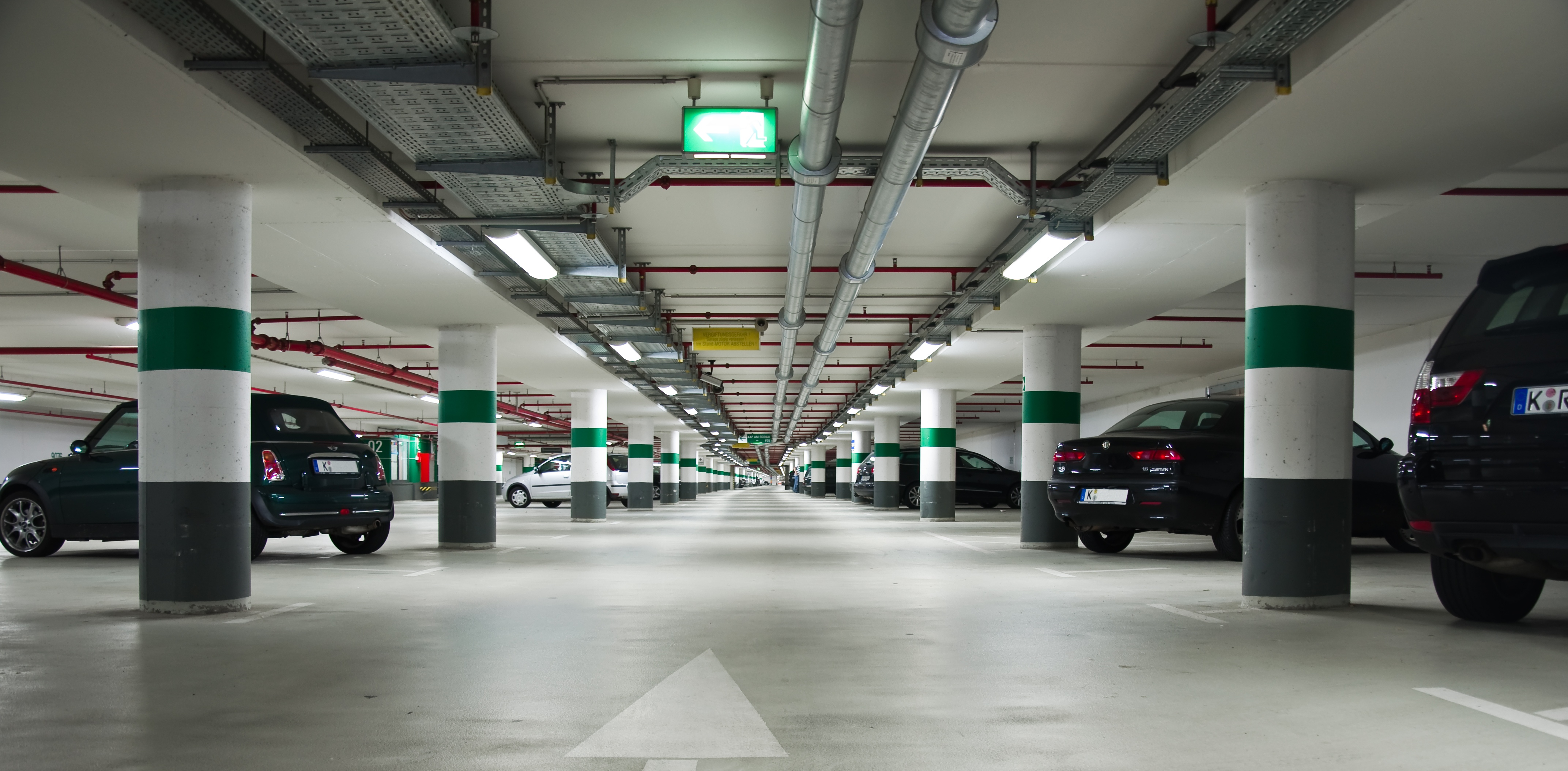 Underground parking at the Rheinauhafen in Cologne